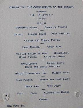 Christmas Day menu at the SS Suevic 1911.